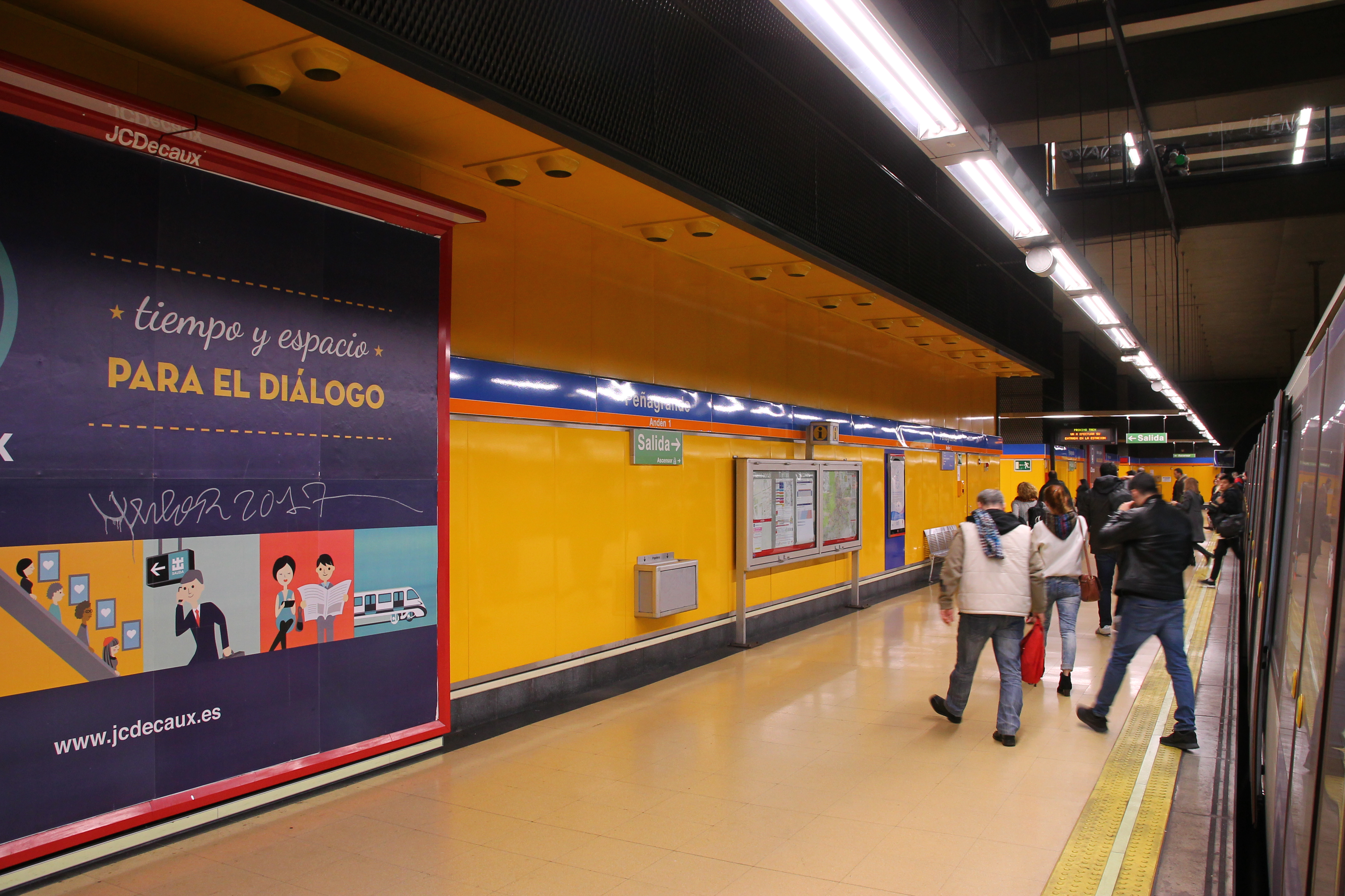 Estación de Peñagrande